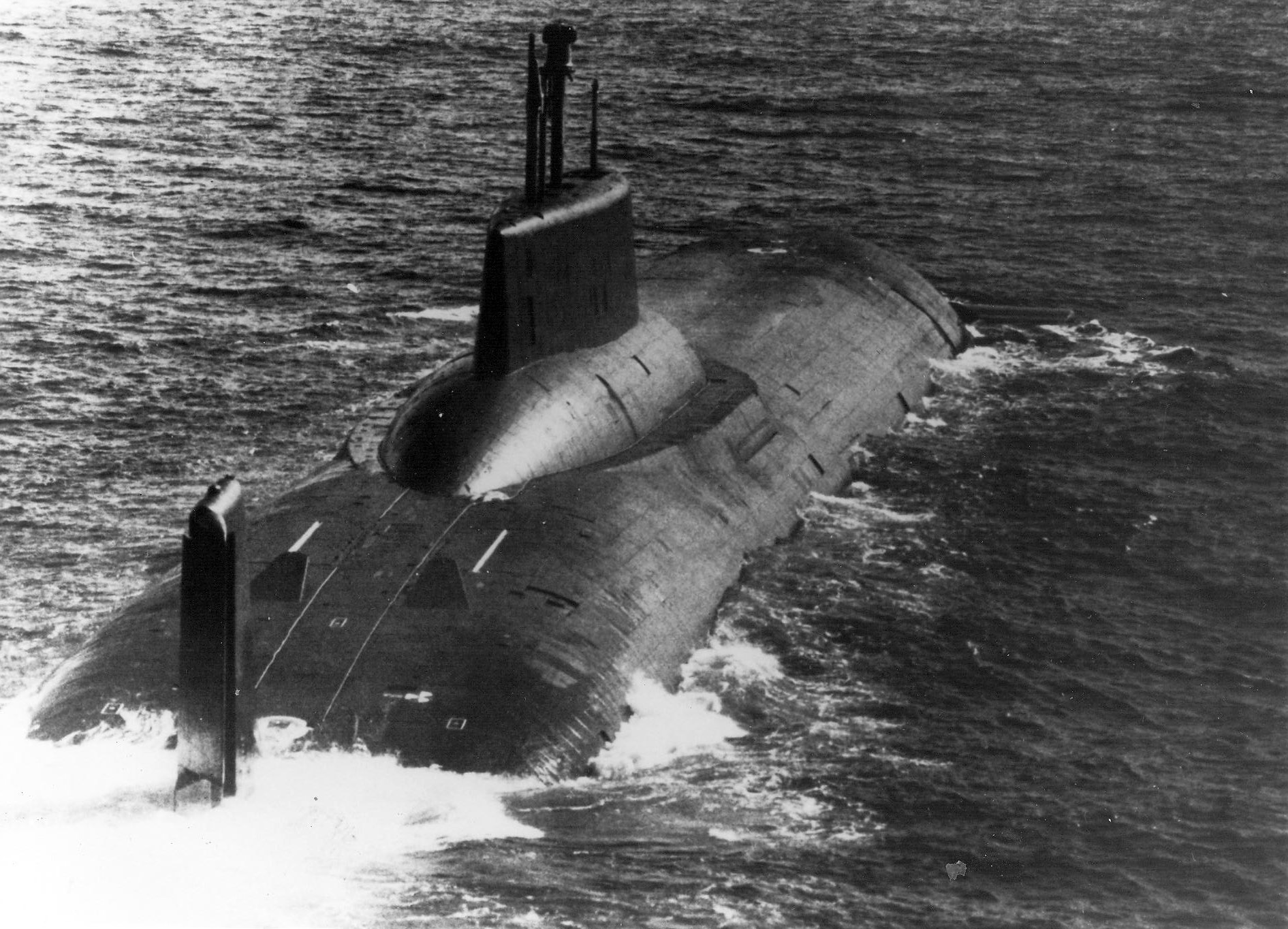 Soviet "Typhoon" class ballistic missile submarine.